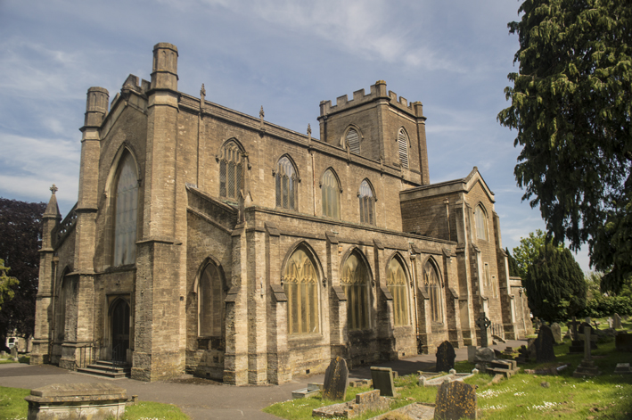 Christ Church, Frome, from the southwest; built in 1818